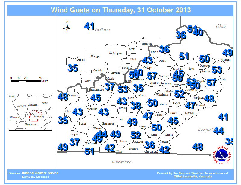 The Kentucky Mesonet is a network of automated weather and climate monitoring stations being developed by the Kentucky Climate Center at Western Kentucky University to serve diverse needs in communities across the Commonwealth of Kentucky.